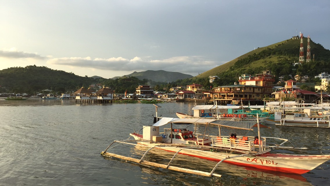 A boat in the Philippines